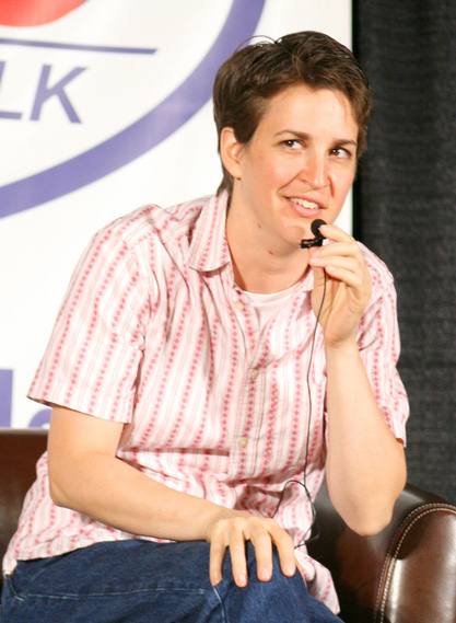 Rachel Maddow in Seattle.